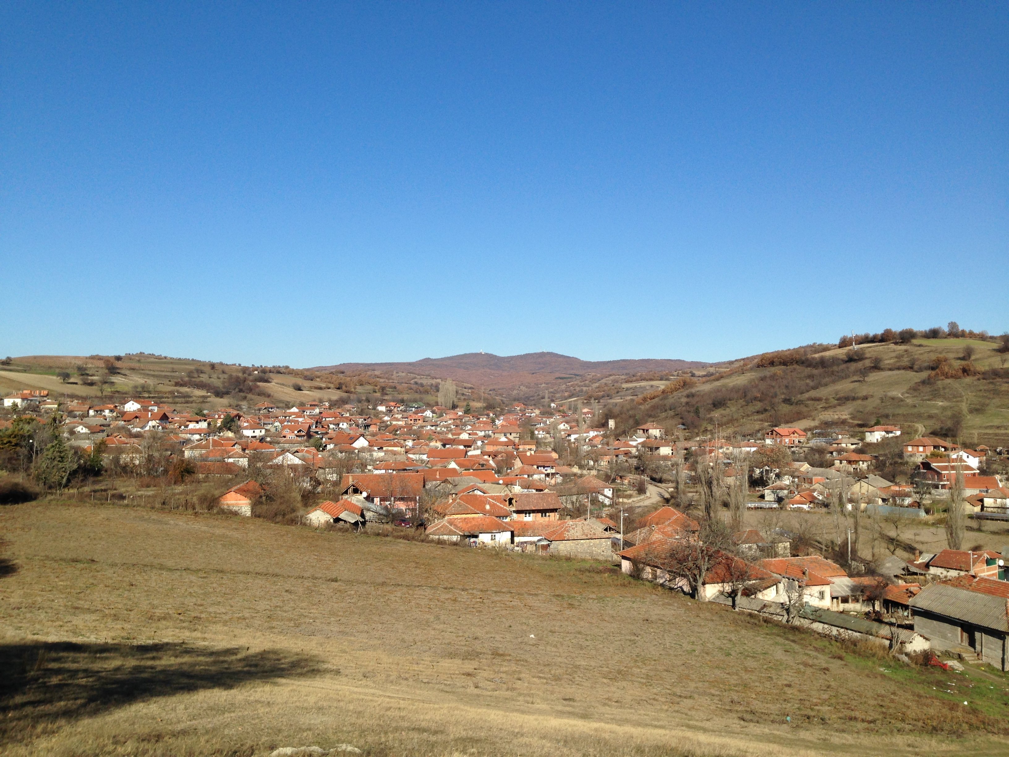 village of Ivankovci, near Veles, Macedonia